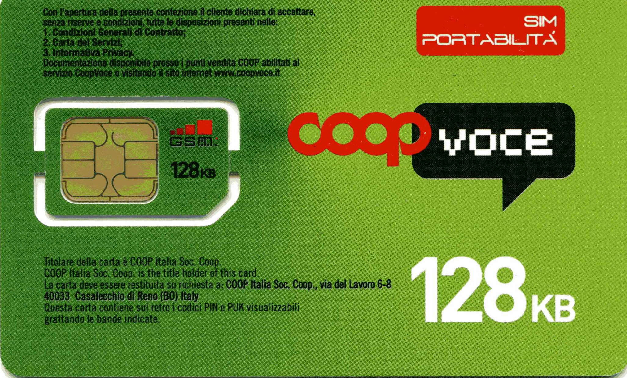 Italy, CoopVoce SIM card.